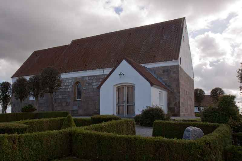 Karup Kirke, small church in Vendsyssel, Danmark